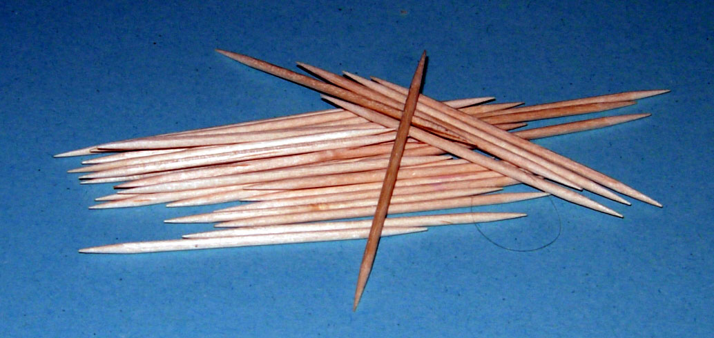 wooden toothpicks